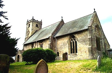 Walton, Nr Thorpe Arch, St Peter's Church.